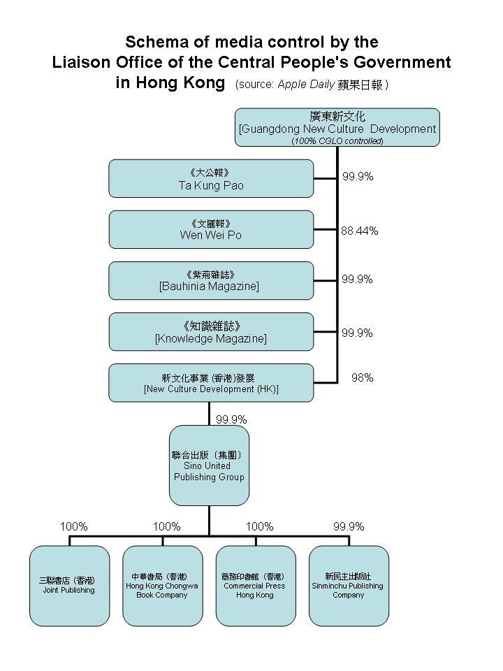 Schema of media control by the Liaison Office of the Central People's Government in Hong Kong Names in square brackets are unverified translations